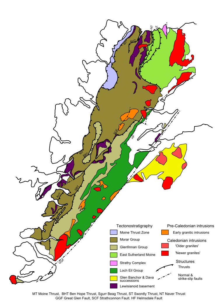 Map of the outcrop of the Moine Supergroup on mainland Scotland and Inner Hebrides. Based on several published maps, particularly several maps in the Geology of Scotland [1]